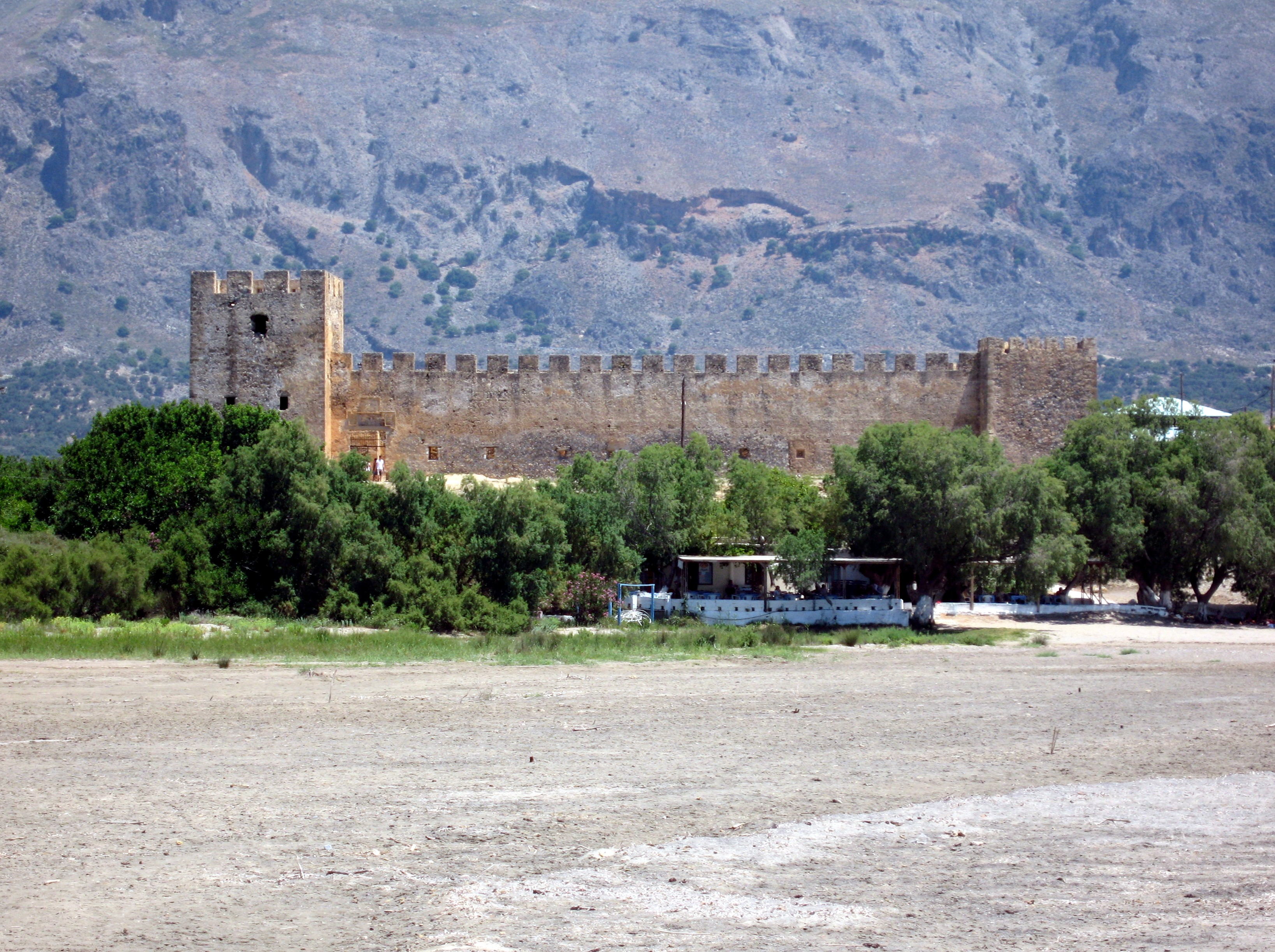 Frangokastello, Sfakia, Nomos Chania, Crete, Greece